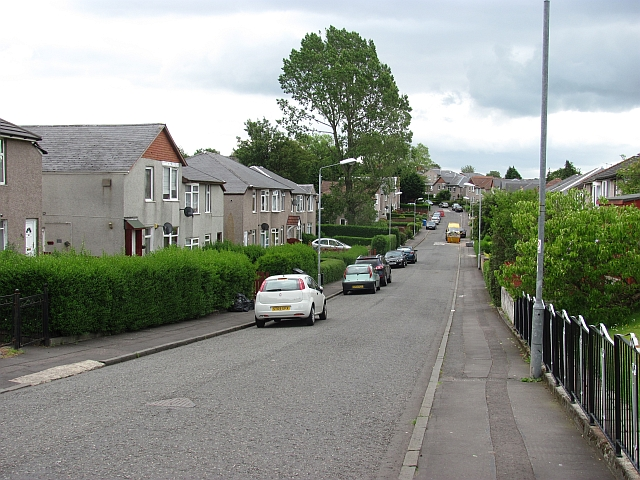 Montford Avenue